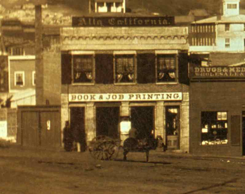 crop of File:SanFrancisco1851a.jpg to highlight the Alta California building.